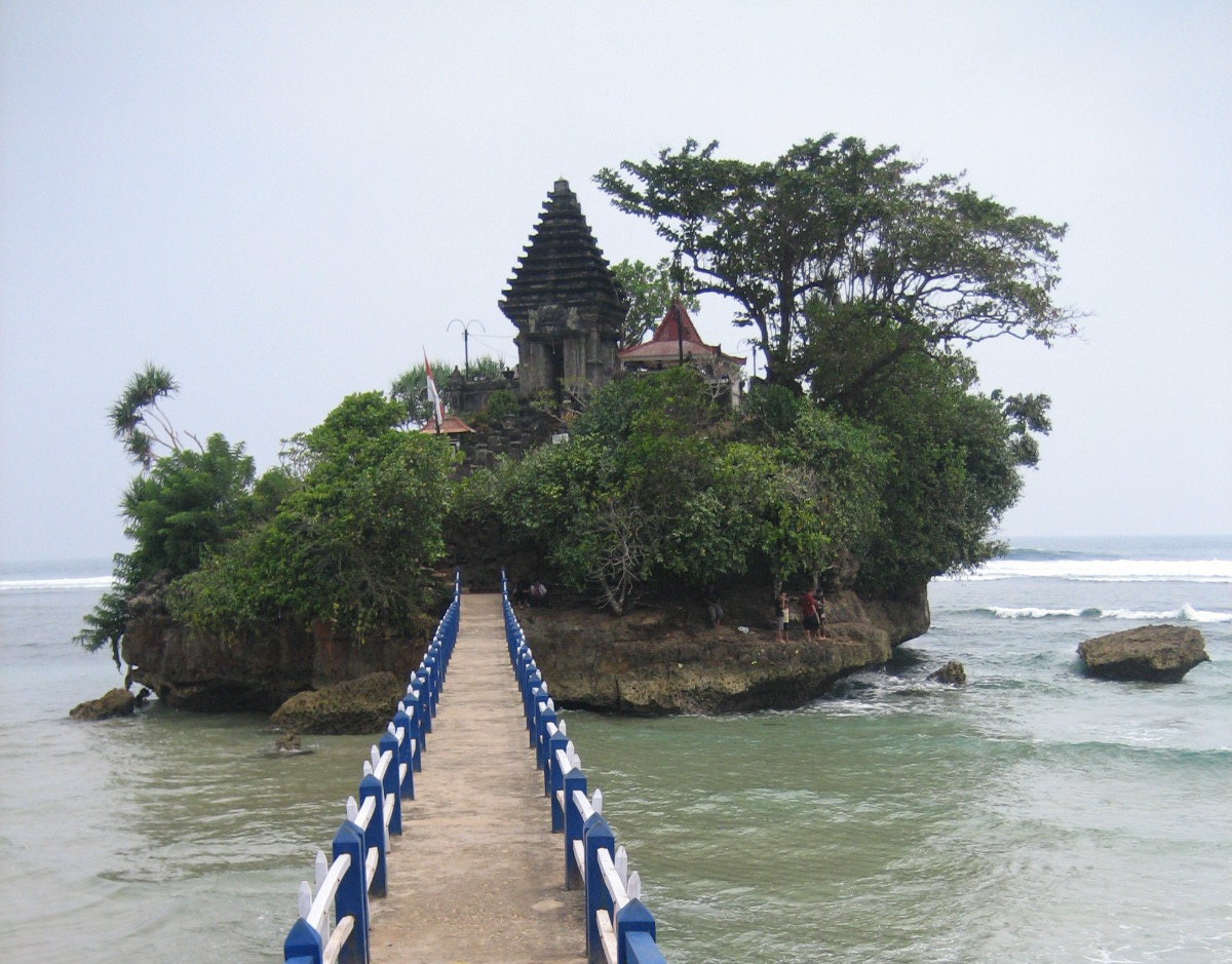 Hindu temple for ceremony that is on top of small rock island and located 50 meters off balekambang beach, Malang Regency, East Java, Indonesia